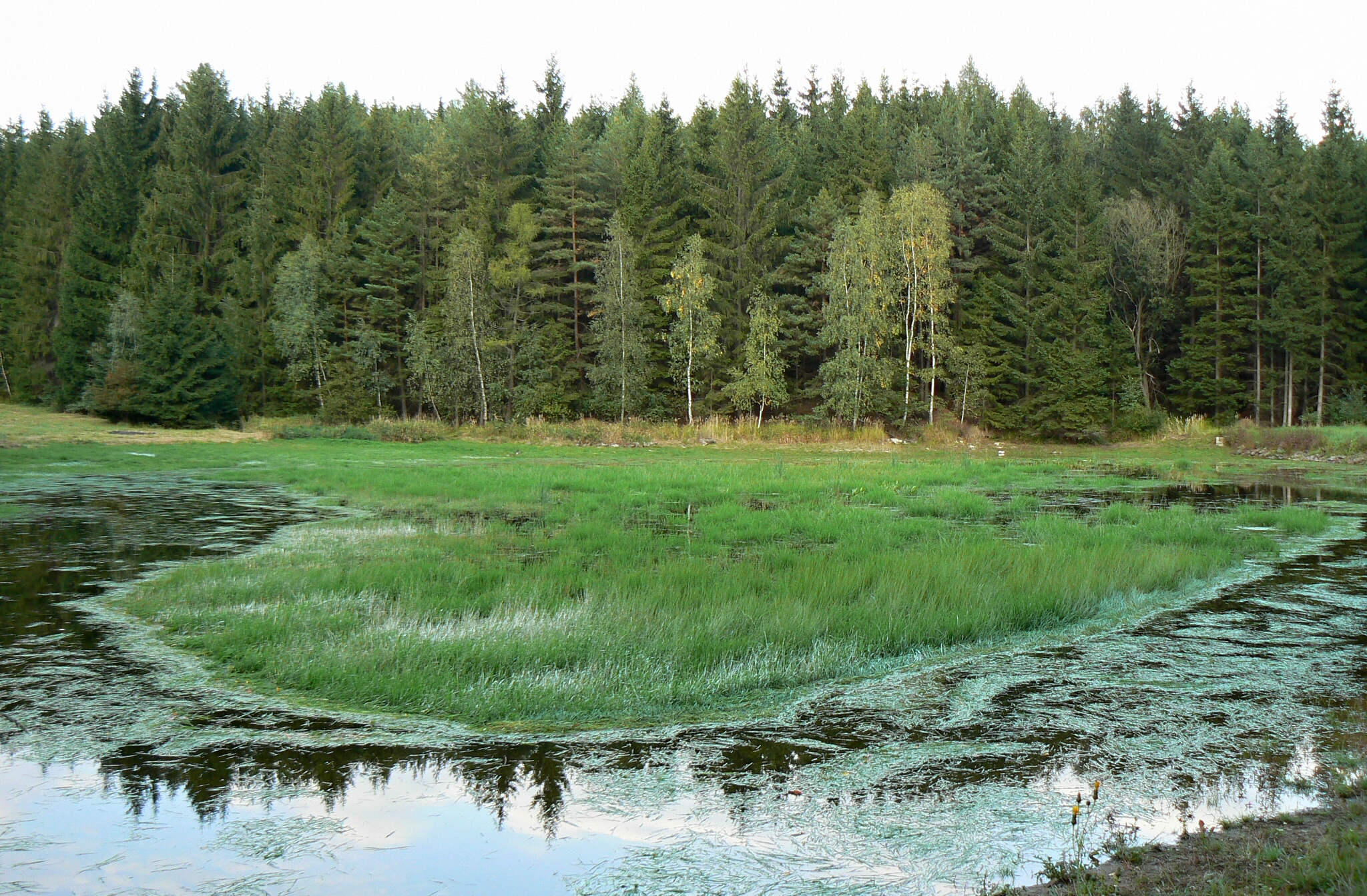 Natural monument Dobrá voda between villages Cyrilov and Vídeň, Žďár nad Sázavou District